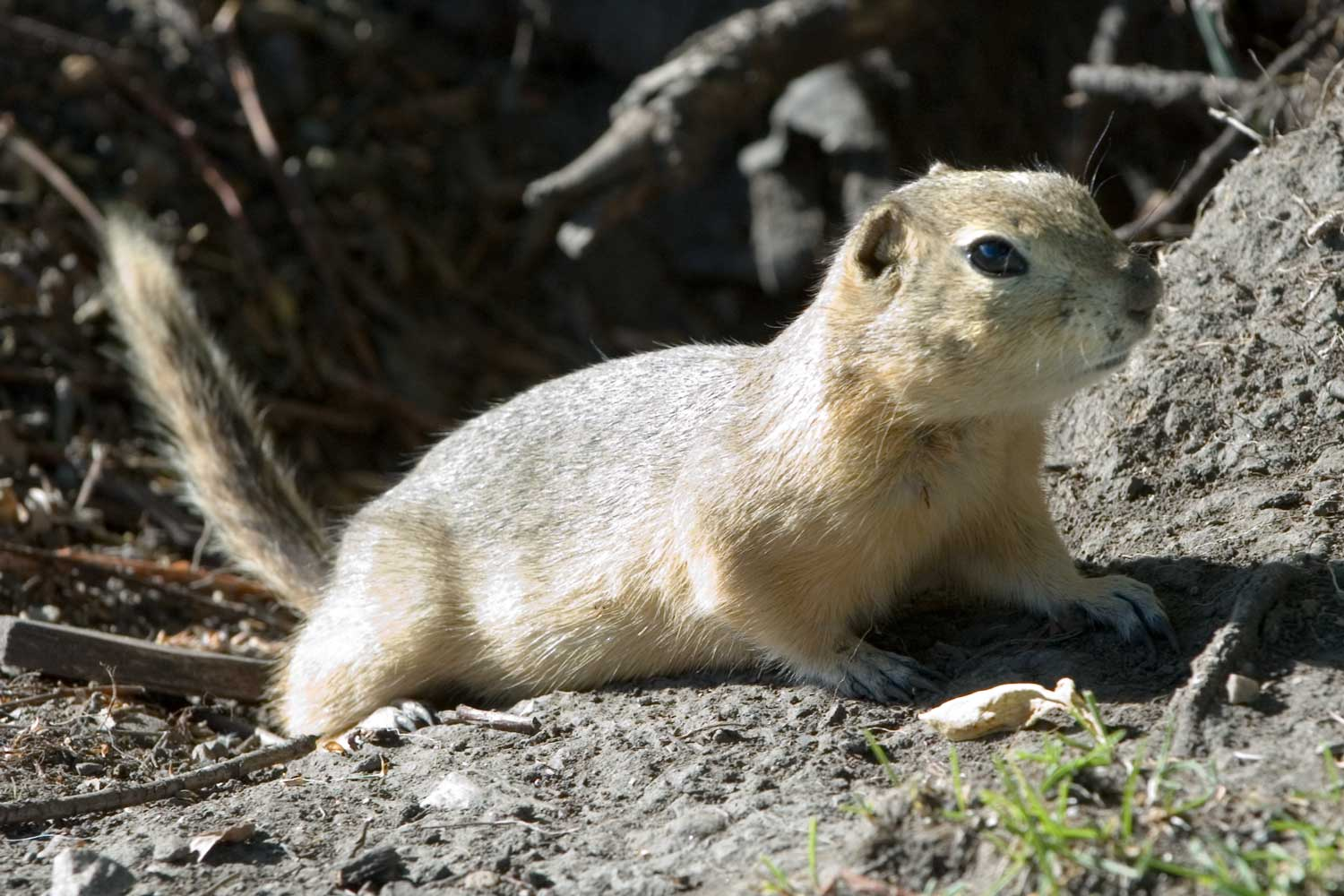 A Richarson's Ground Squirrel (Spermophilus richardsonii), in Fish Creek Park, Calgary, Alberta. Photo by Chuck Szmurlo taken July 9 2005 with a Nikon D70 and a Nikon 70-200 f2.8 lens.